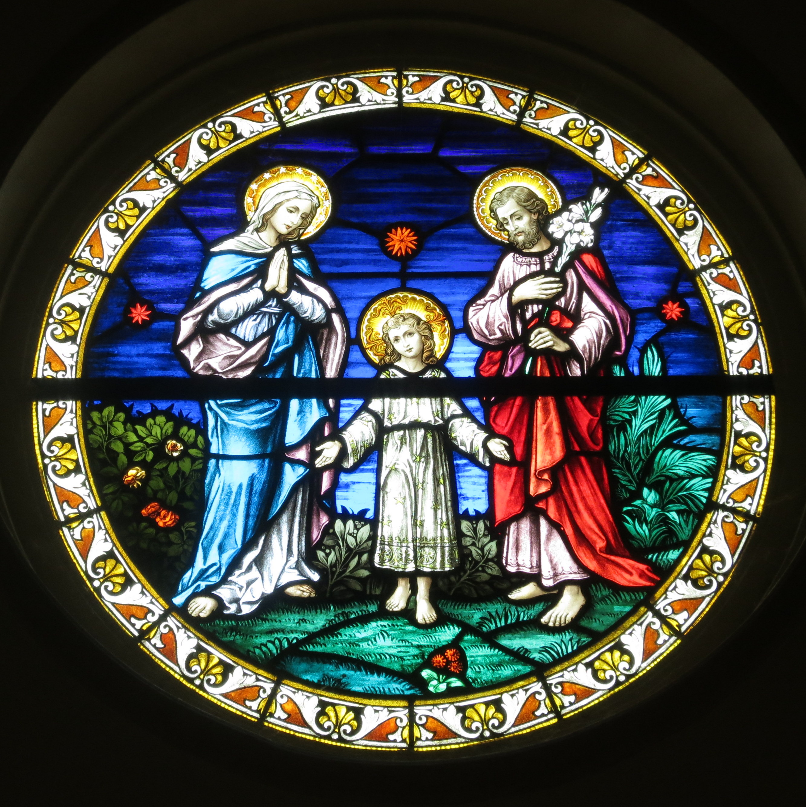 Immaculate Conception Catholic Church (Port Clinton, Ohio) - stained glass, Holy Family